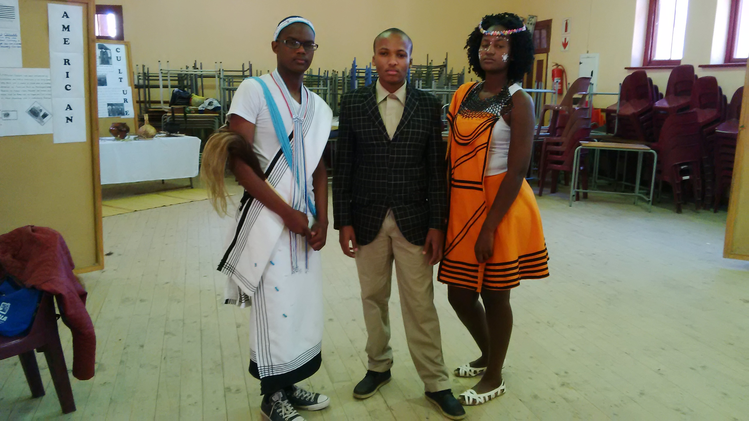 The clothes how amaxhosa wear This is an image of Cultural Fashion or Adornment from South Africa